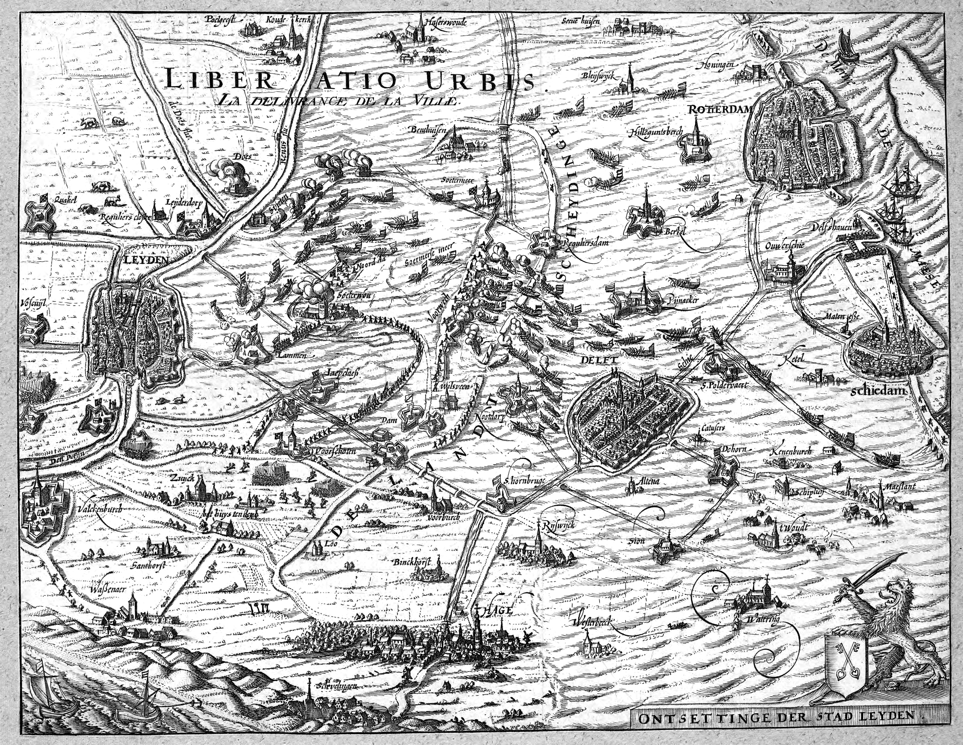 Ontsettinge der Stad Leyden etching and engraving 26 x 34 cm 1614